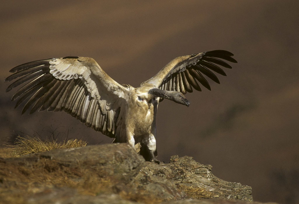 Cape Vulture - Giant Castle - South-Africa_010002